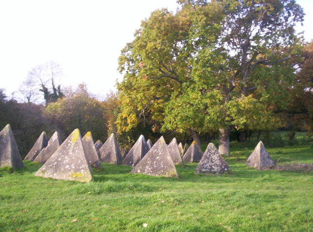 Anti-tank Obstacles 83 anti-tank obstacles arranged in 3 rows on the rim of a hollow alongside the railway line from London to Dover.